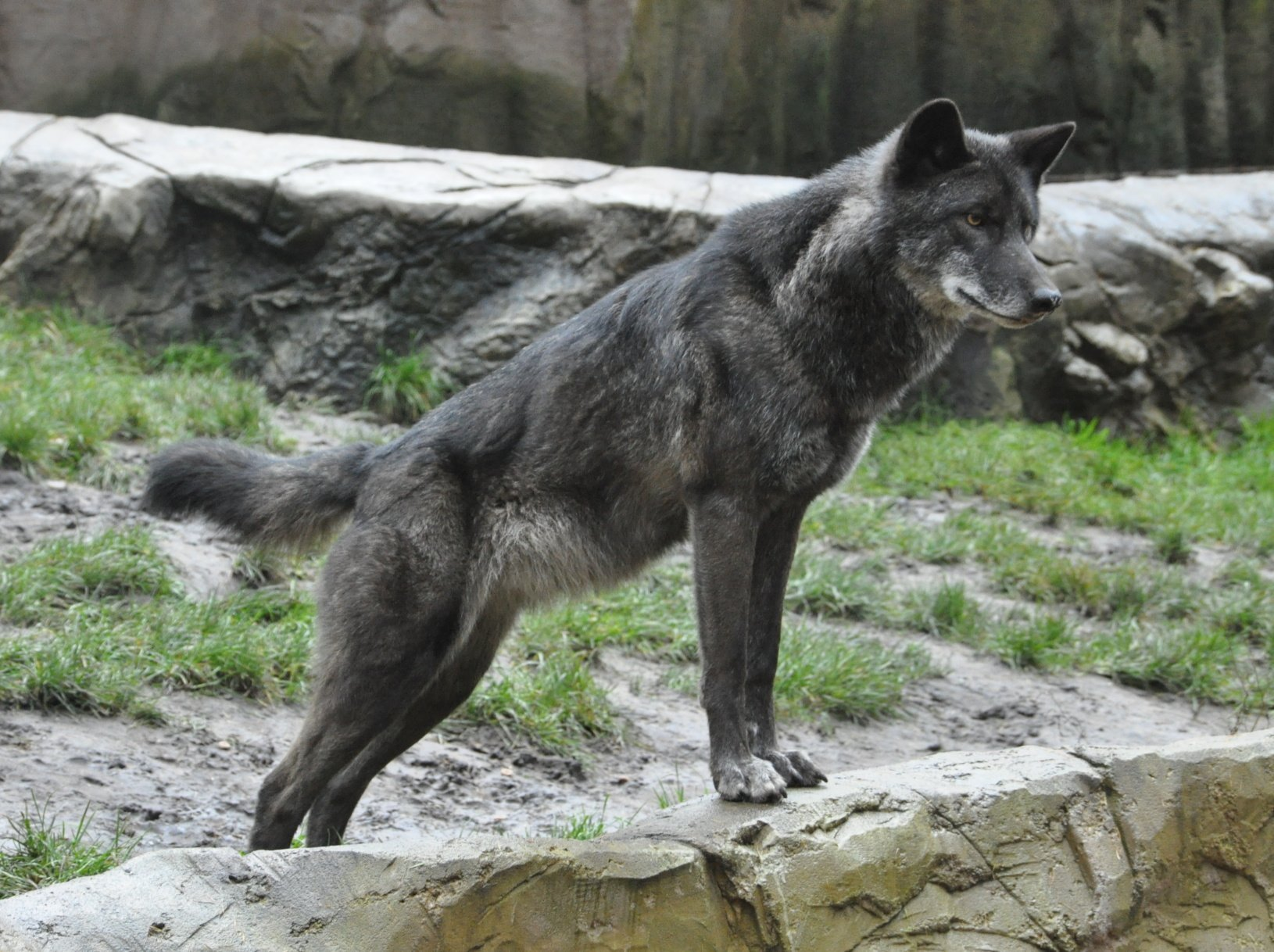 Eastern Wolf (Canis lupus lycaon) in the Lüneburg Heath wildlife park, Germany.